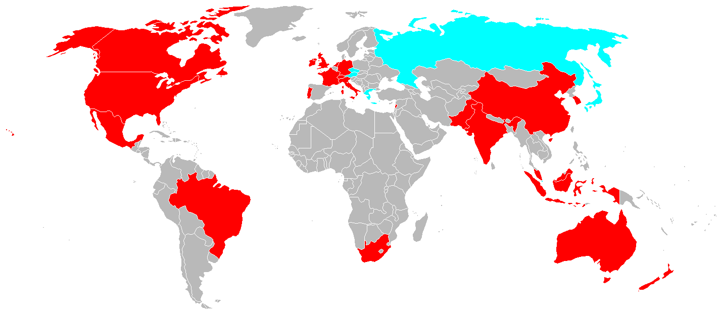 A map of the world (Image:BlankMap-World.png) showing the geographical distribution of A1 Grand Prix teams past, present and future. Key: Red - current team Light blue - former team Green - planned team A1 Grand Prix is more than just another motorsport phenomenon; it's an entirely new sport - The World Cup of Motorsport. Pitting driver against driver and country against country for the first time in history, A1 Grand Prix will bring together 25 nations representing 80 per cent of the world's population to actively compete on a level playing field.